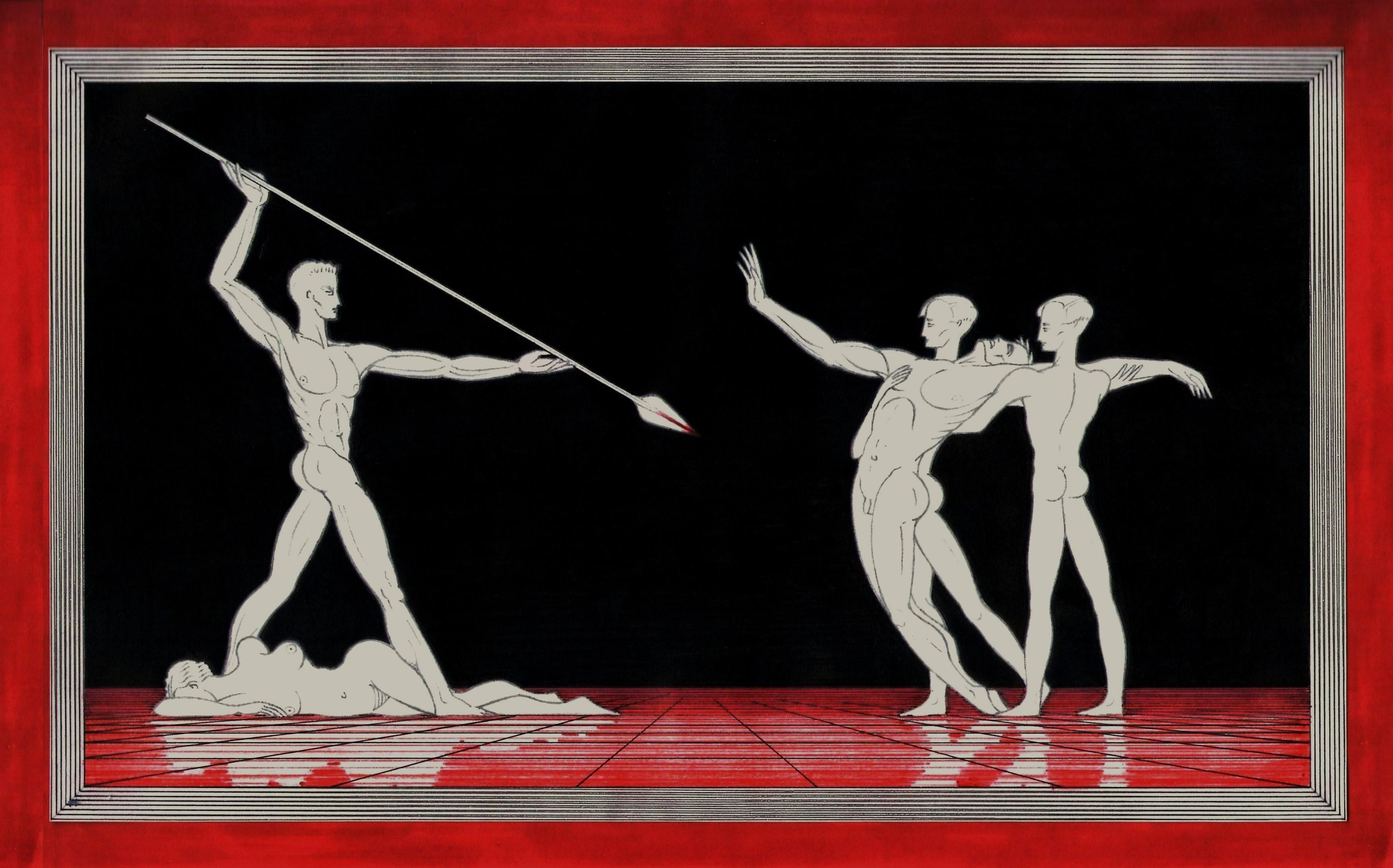 Richard Wagner, Parsifal, Act 3, Nur eine Waffe taugt (by Arnaldo Dell'Ira (1903-1943), coloured inks on paper, c. 1930)